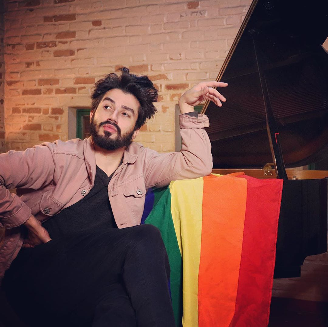 Franz Ventura